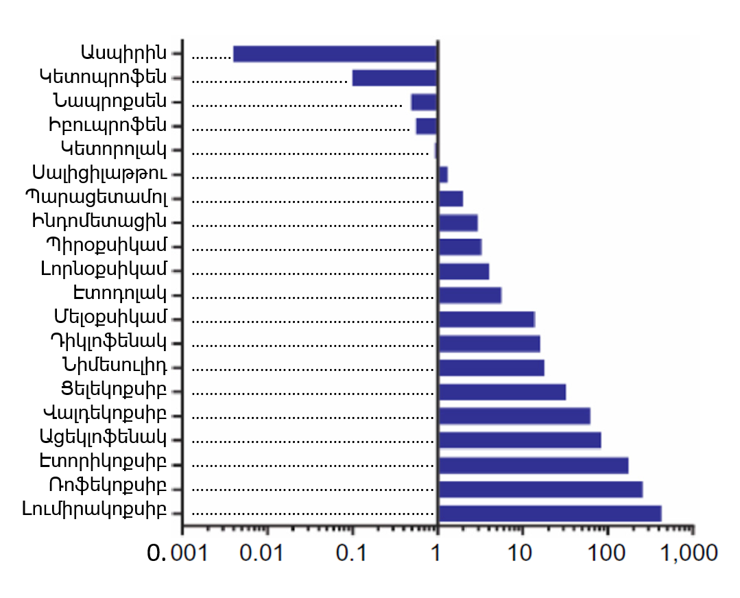 A graph of relative COX-1/COX-2 selectivity of some widely used NSAIDs.